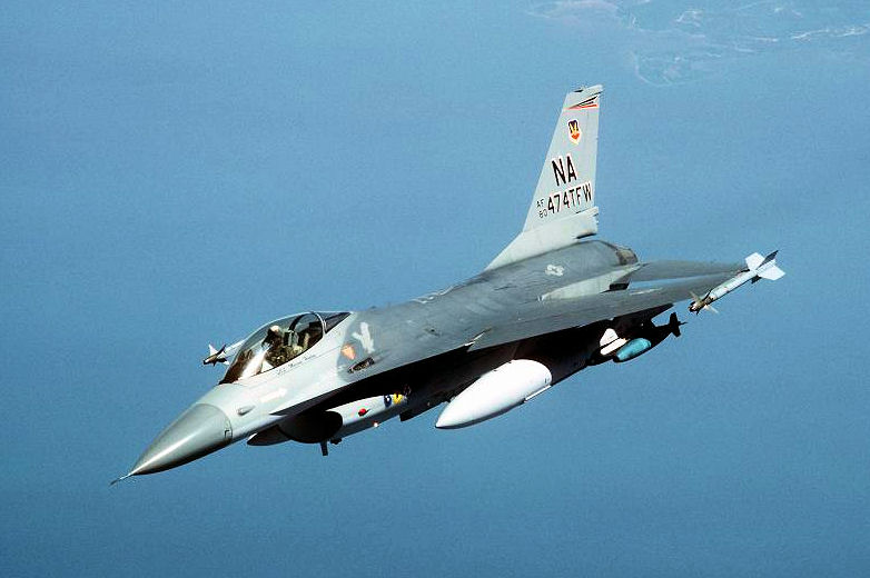 An air-to-air left front view of USAF F-16A block 10 #80-0474 from the 474th TFW spotted during Exercise Solid Shield '87 on May 1st, 1987. [USAF photo]